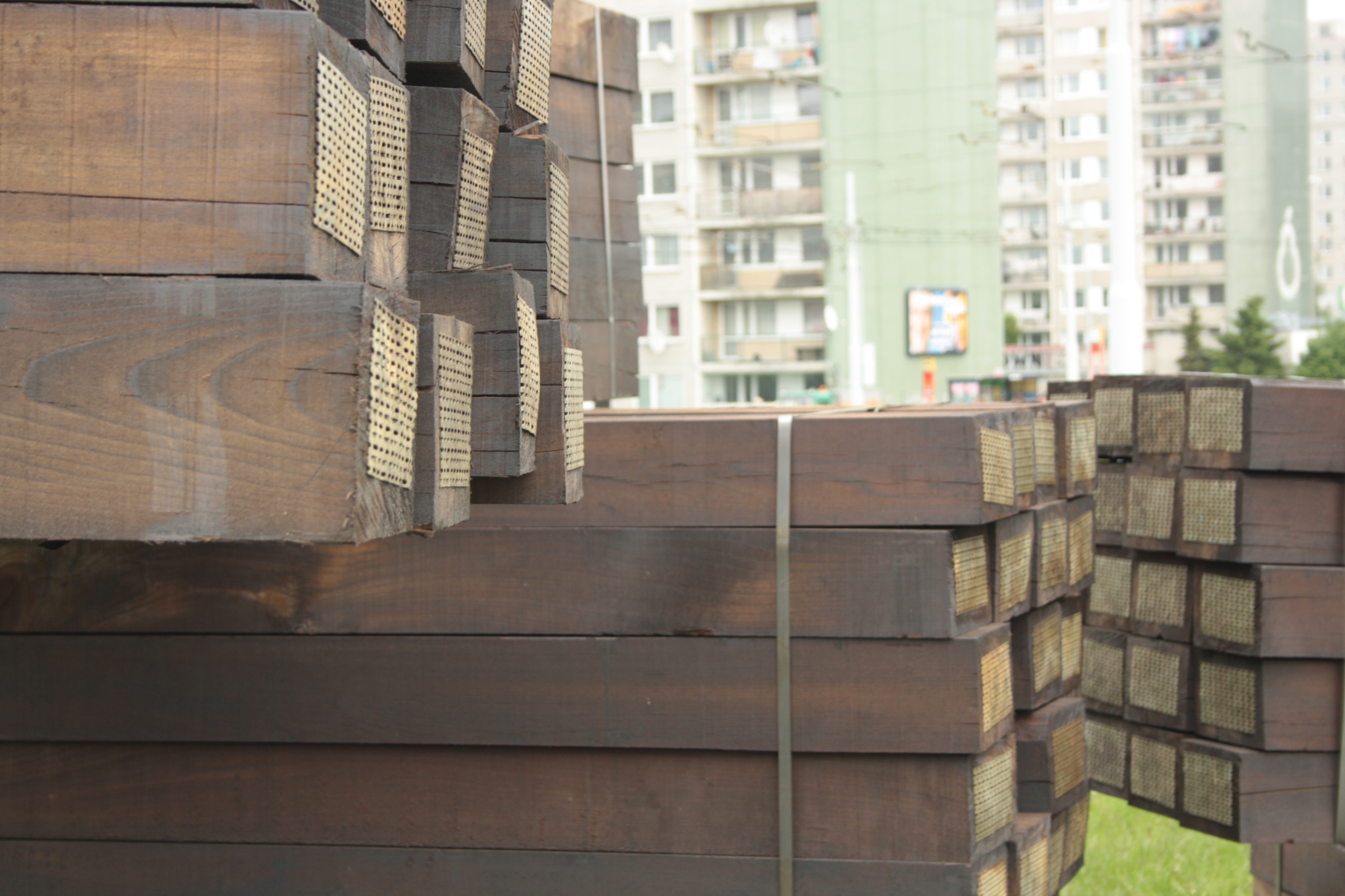 Wooden sleepers ready for use near Sídliště Řepy tram terminus and Praha-Zličín train station; Řepy, Prague, Czech Republic